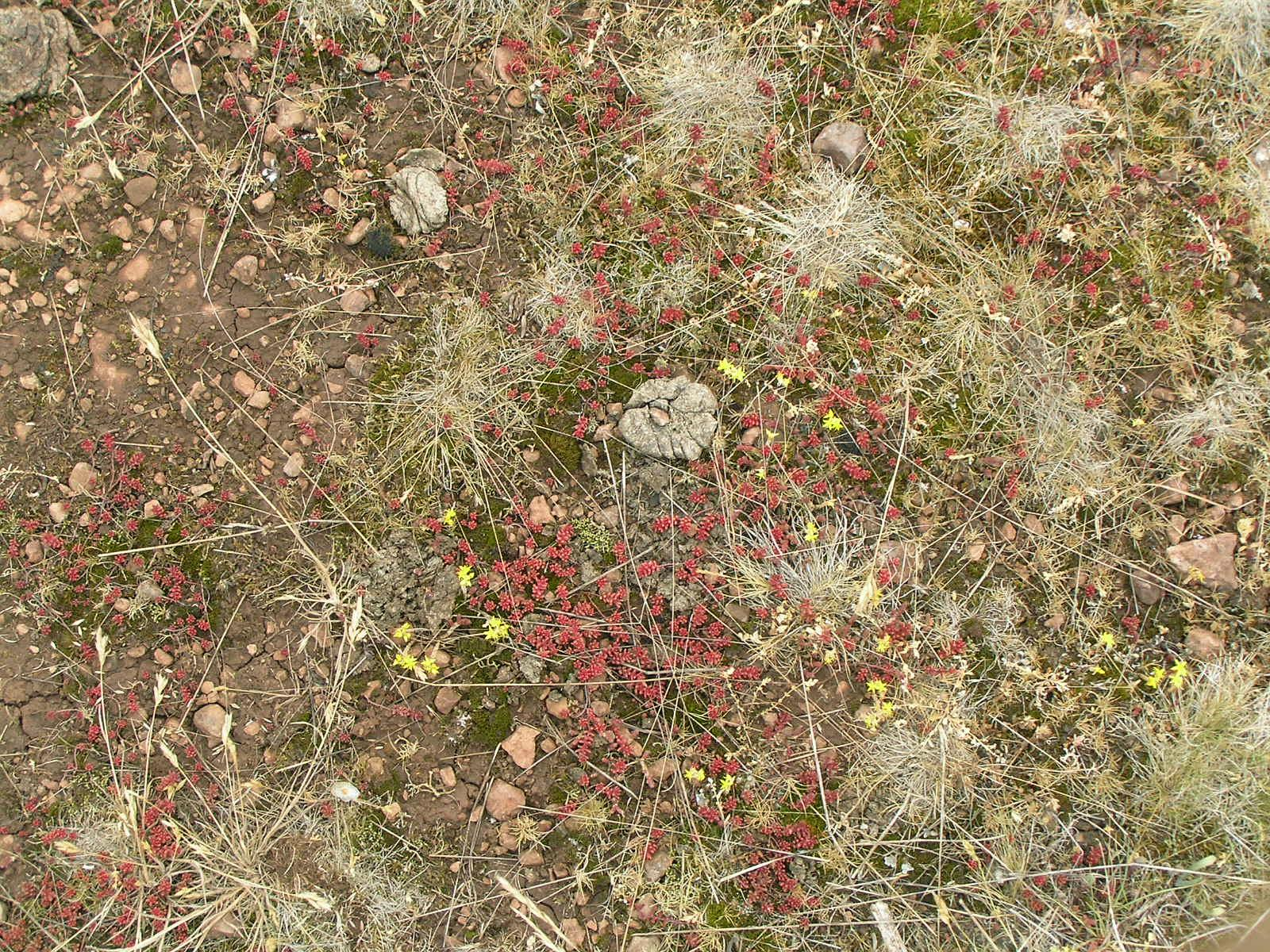 Alvar vegetation at Österplana hed, Kinnekulle, Västergötland, Sweden. Species include Sedum album, Sedum acre, Arenaria gothica, various lichens, mosses and grasses.